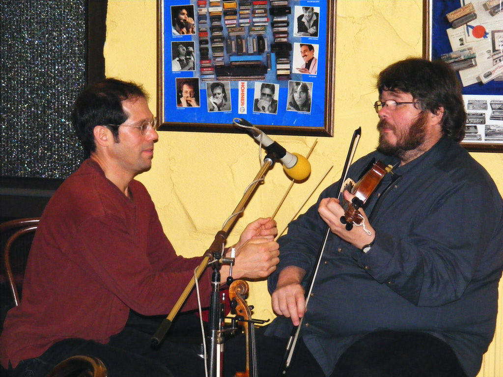 American dancer and fiddler Ira Bernstein (left) performing fiddlesticks with old-time musician Riley Baugus. Photo taken at Colfers Pub, Carrig on Bannow Wexford, Ireland, with a Fujifilm FinePix S5800 S800 digital camera.